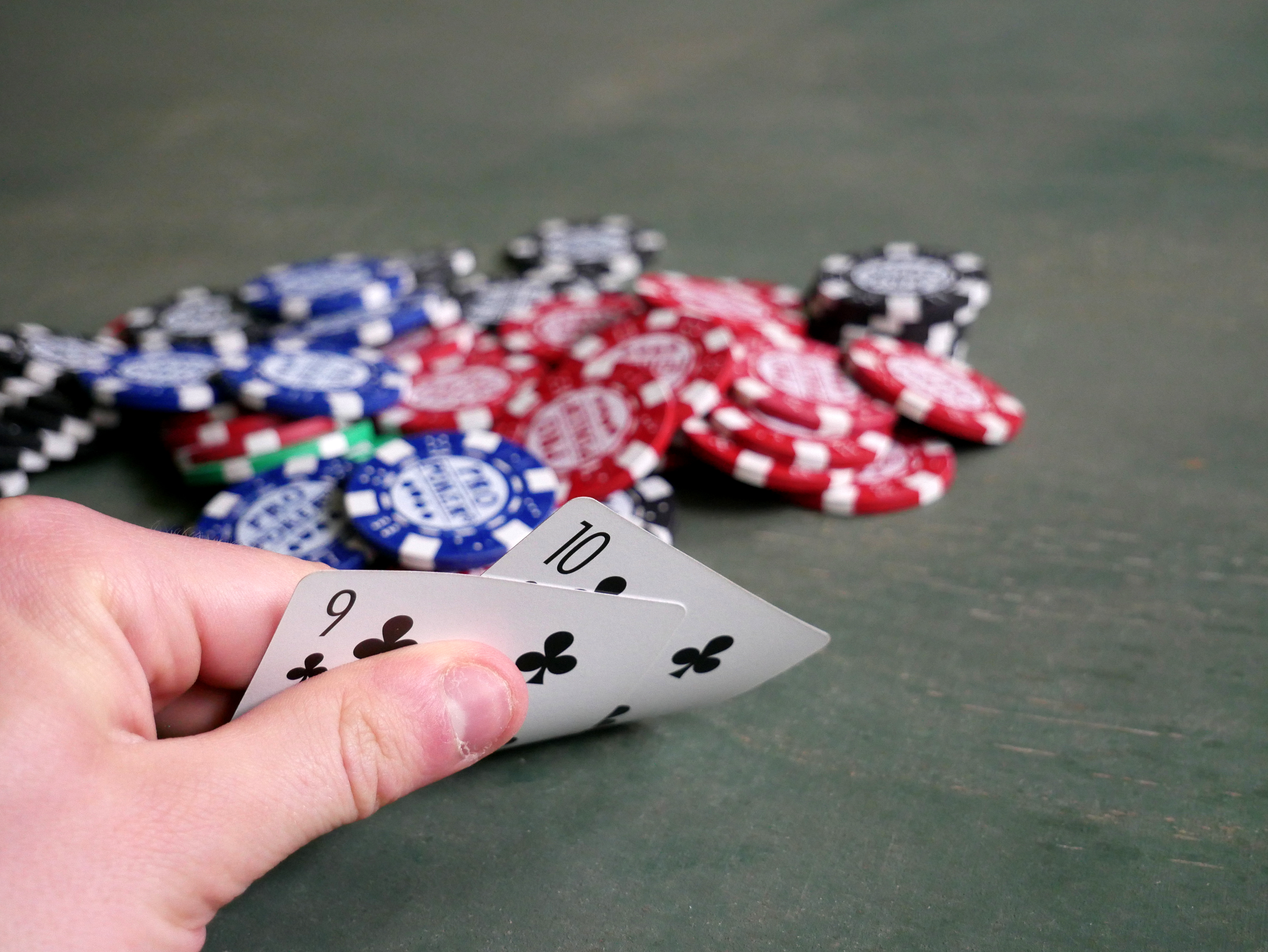 Two poker cards and poker chips.